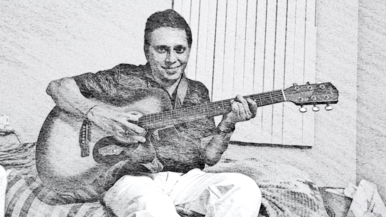 music